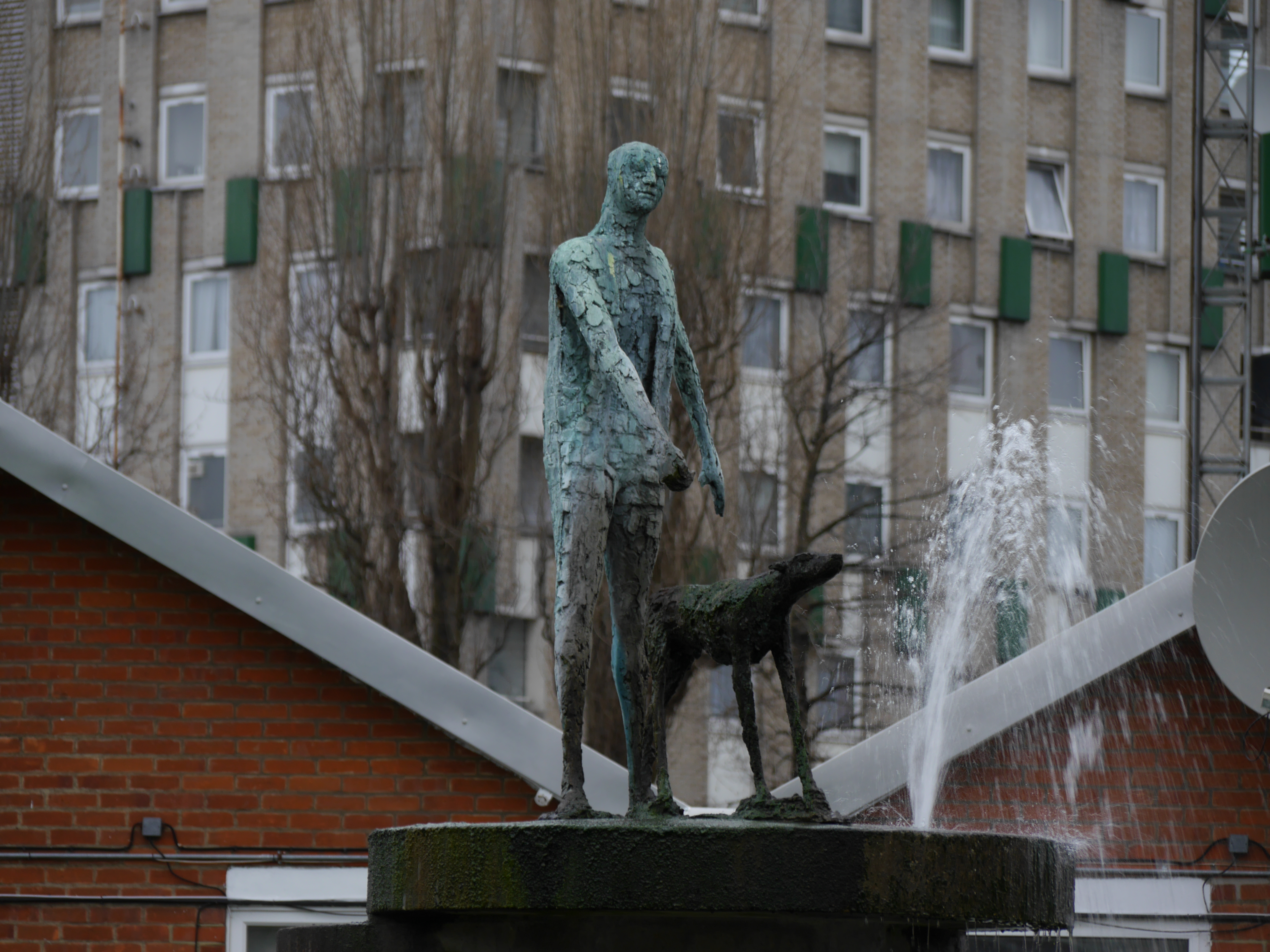 Blind Beggar and His Dog is a 1958 bronze sculpture by Elisabeth Frink. It is about eight feet, on high and stepped concrete plinth. The Blind Beggar of Bethnal Green is a noted local mythological figure, dating back to at least the seventeenth century.[1]